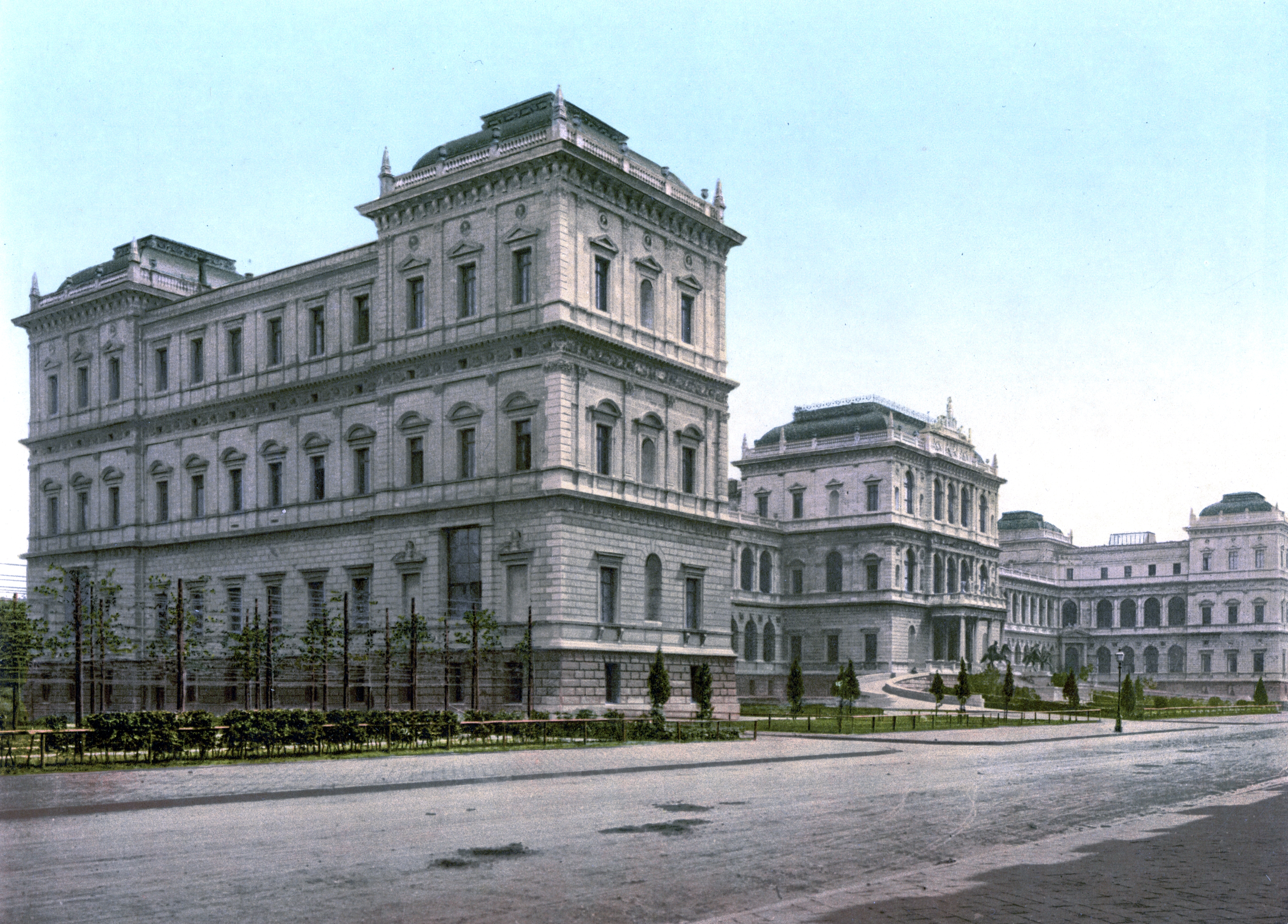 The Academy of Fine Arts, Munich, completed in 1886 in Maxvorstadt, Munich.